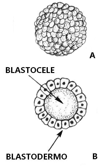 Rotate image and text in spanish